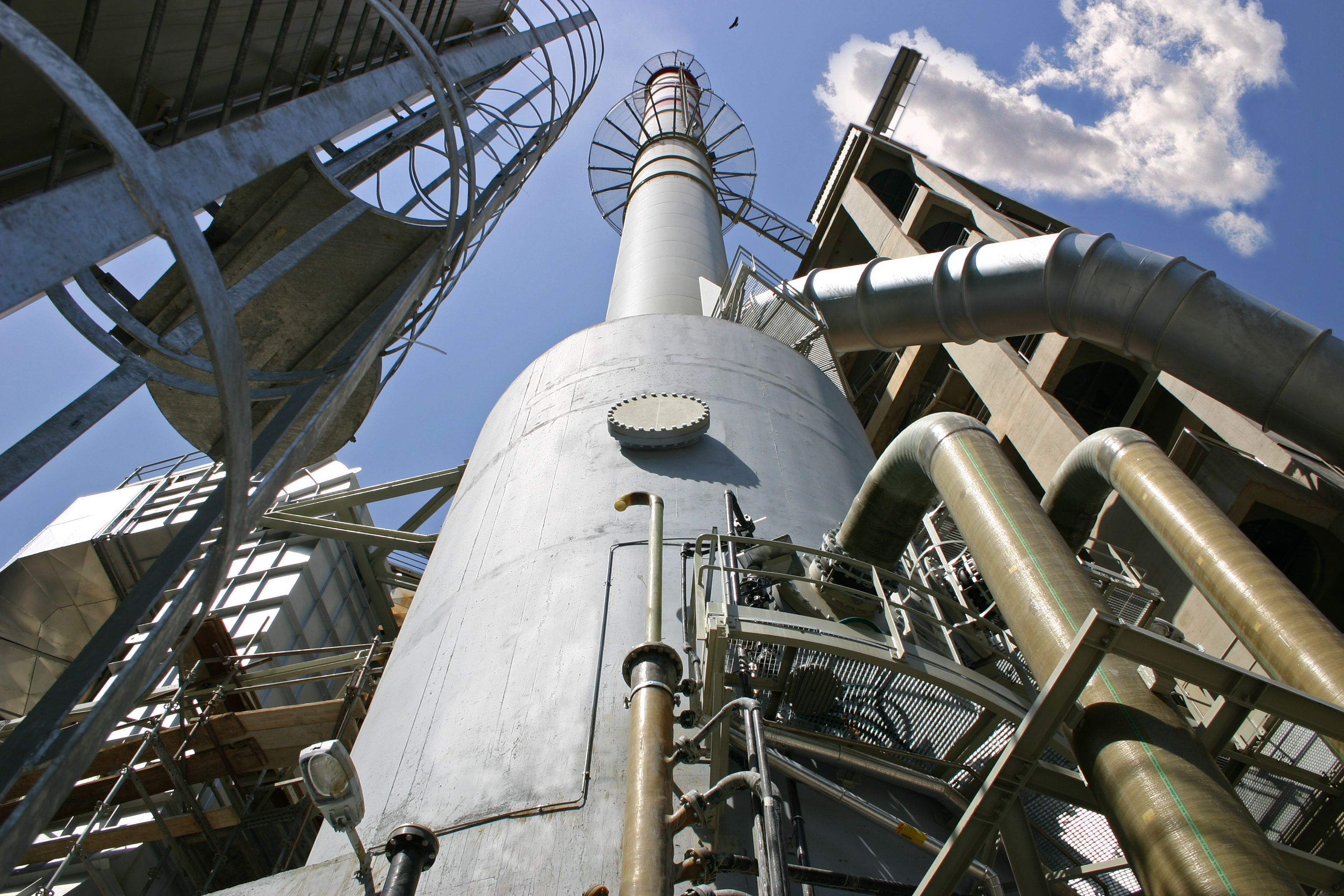 Na sedmi točki so predstavljene okoljske zaveze cementarne